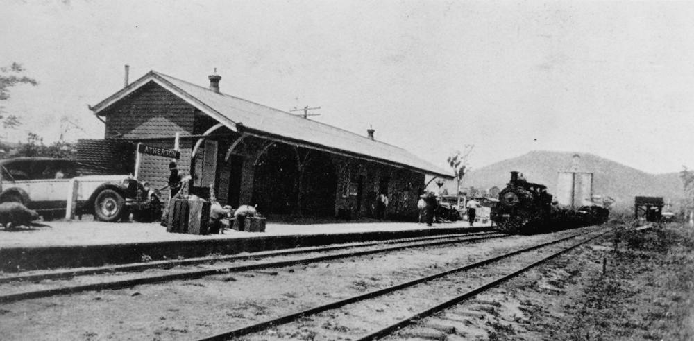 Arrival of the train to Atherton Railway Station, Queensland, 1928. A train is about to stop at the platform of the Atherton Railway Station. There is a large touring motor vehicle waiting near the gate.